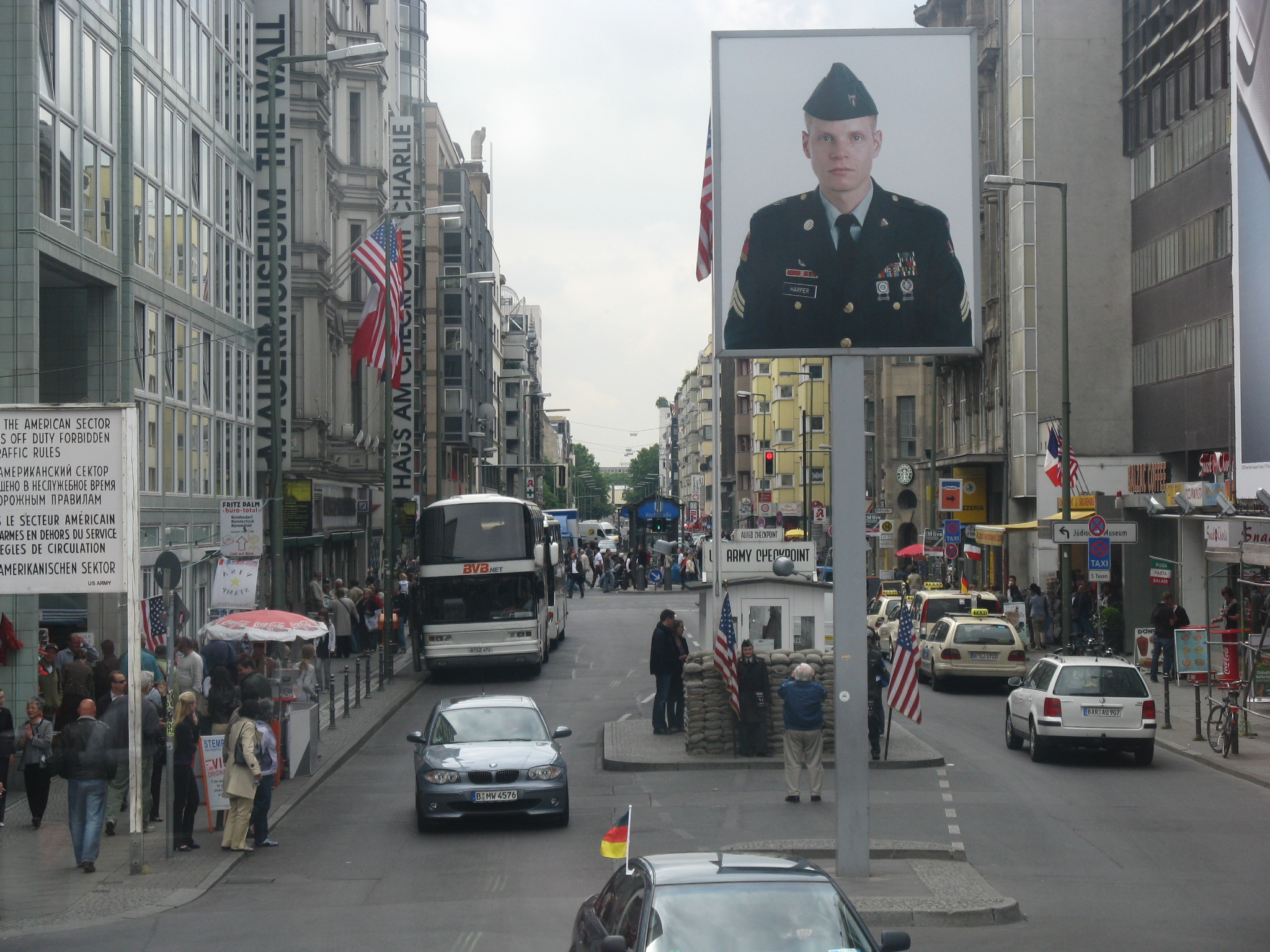 Charlie's Checkpoint in Berlin